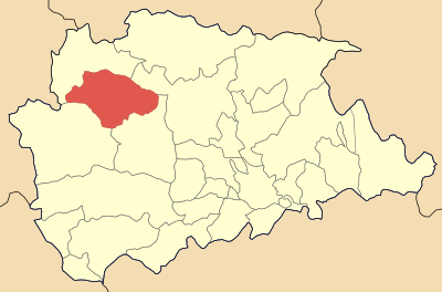 Dimos Kastanias in Trikala perfecture, Greece